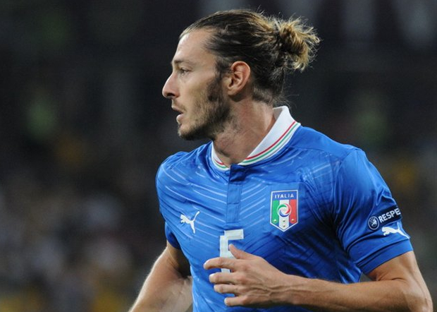 Federico Balzaretti at Euro 2012 match against England